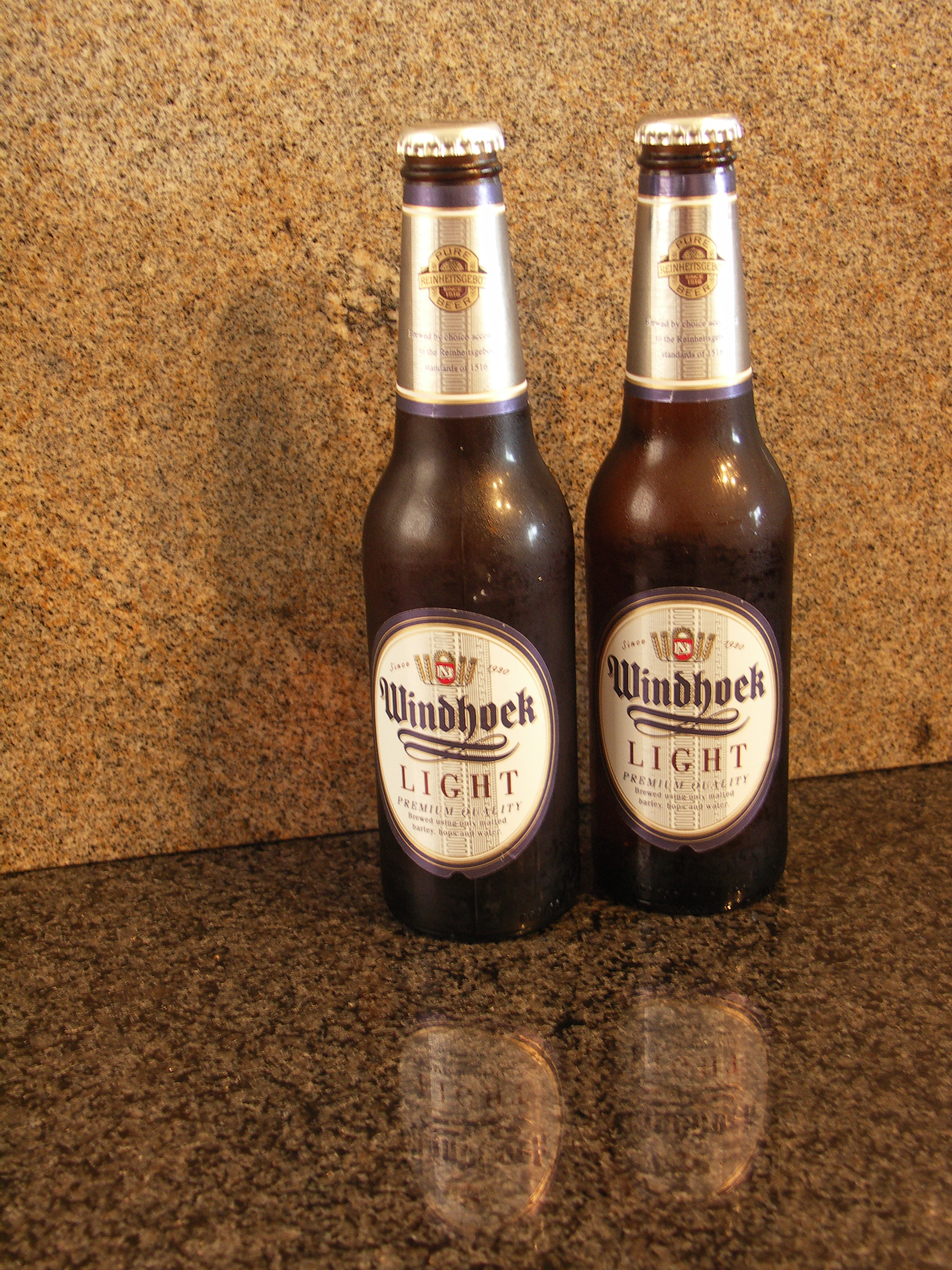 Windhoek Light Beer produced by Namibia Breweries Limited